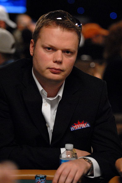 Juha Helppi at the 2007 World Series of Poker.